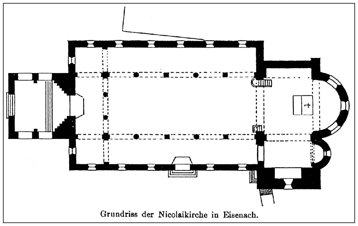 A plan of the ST.NICOLAI church in Eisenach.